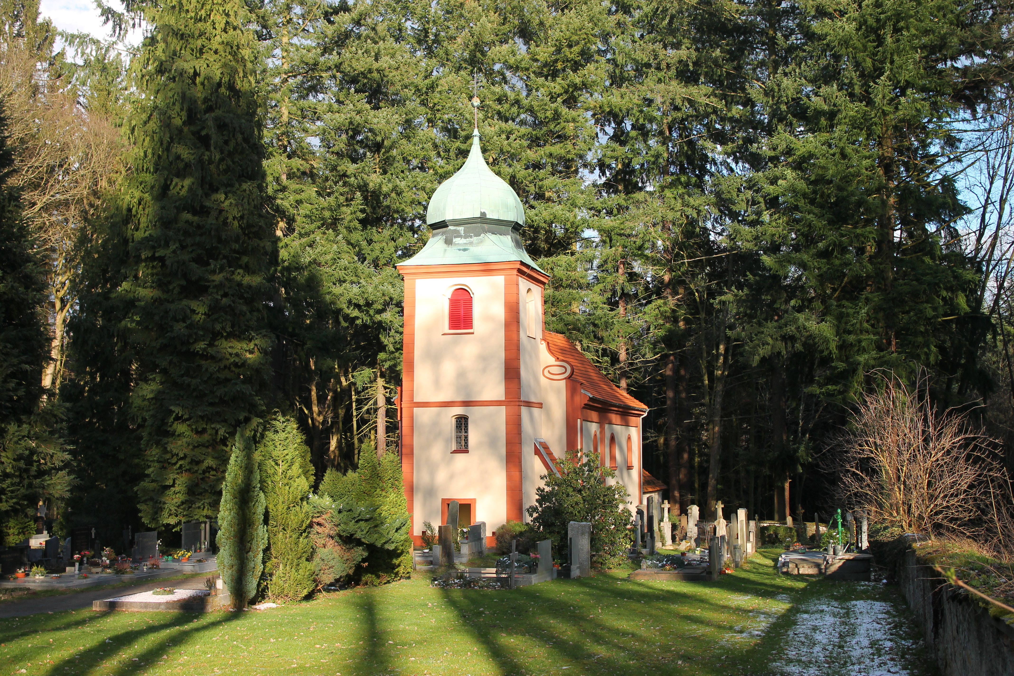 Aldašín